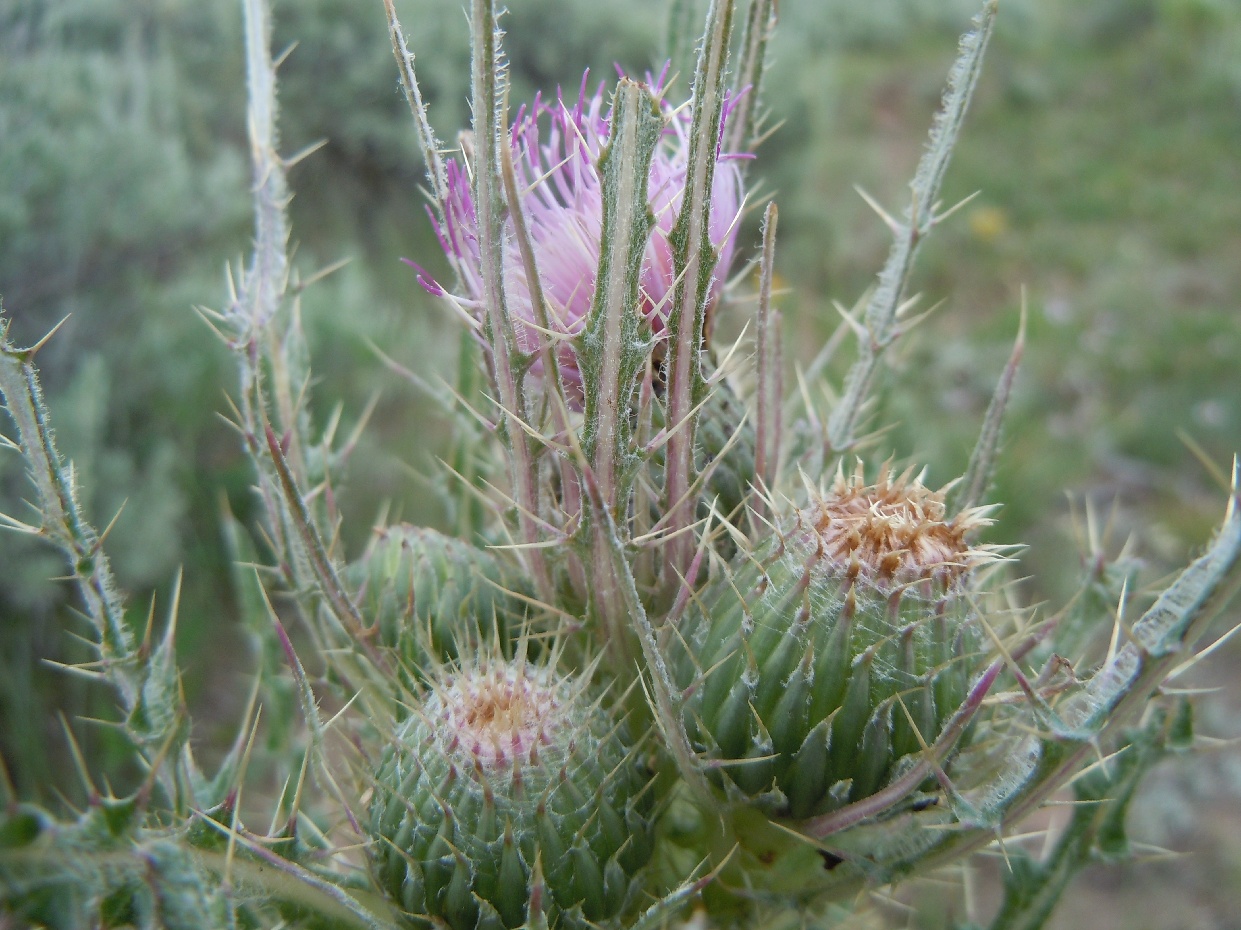 Cirsium brevistylum is sometimes found in sagebrush steppe with high native plant cover as well as along adjacent roads that are seldom used or disturbed.